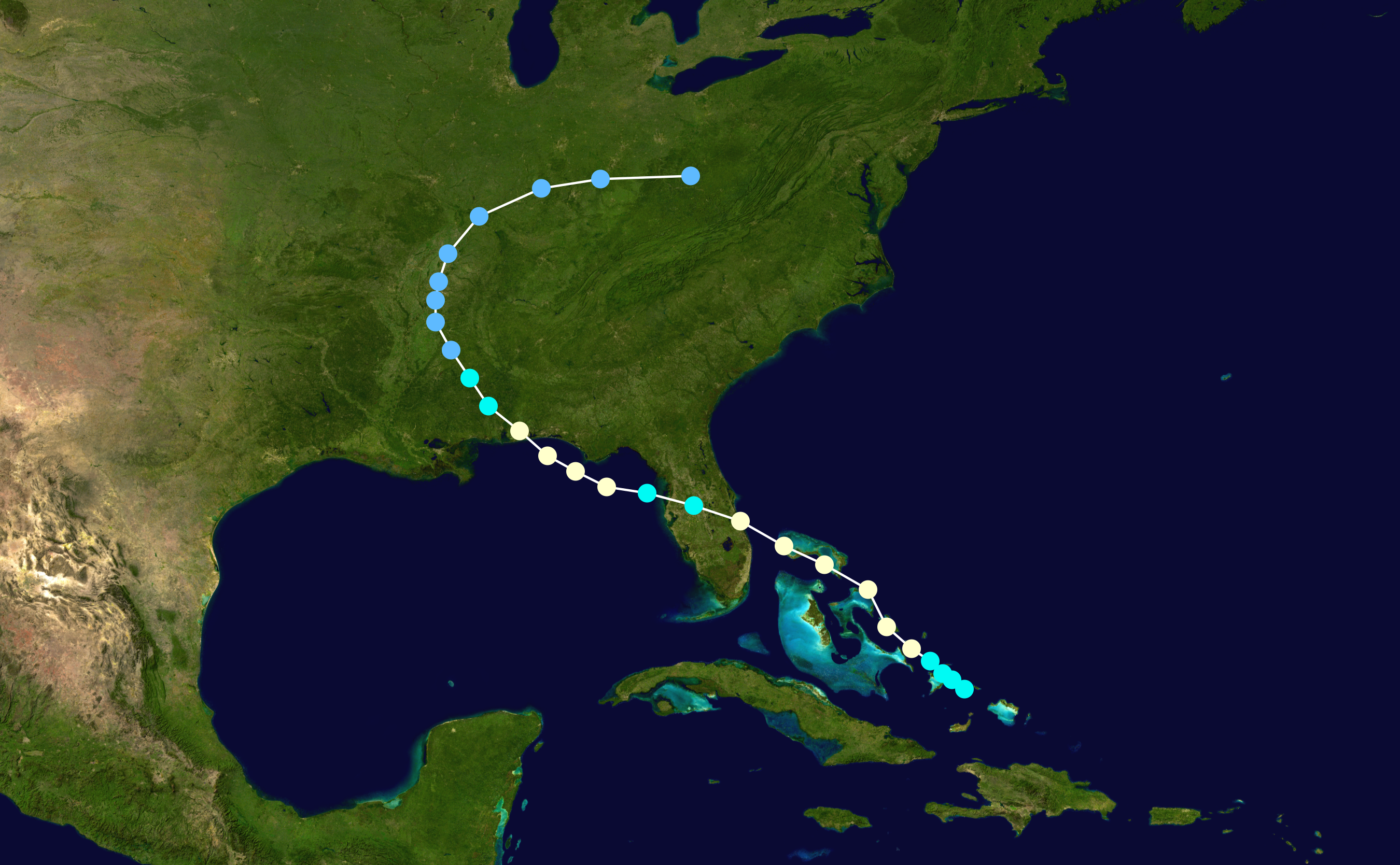 Track map of Hurricane Erin of the 1995 Atlantic hurricane season. The points show the location of the storm at 6-hour intervals. The colour represents the storm's maximum sustained wind speeds as classified in the Saffir–Simpson scale (see below), and the shape of the data points represent the nature of the storm, according to the legend below. Saffir–Simpson scale Tropical depression≤38 mph≤62 km/h Category 3111–129 mph178–208 km/h Tropical storm39–73 mph63–118 km/h Category 4130–156 mph209–251 km/h Category 174–95 mph119–153 km/h Category 5≥157 mph≥252 km/h Category 296–110 mph154–177 km/h Unknown Storm type Tropical cyclone Subtropical cyclone Extratropical cyclone / Remnant low / Tropical disturbance / Monsoon depression